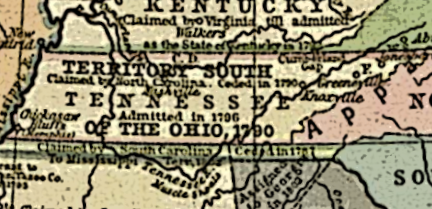 Detail from William R. Shephard's Historical Atlas showing the Southwest Territory, or modern Tennessee.